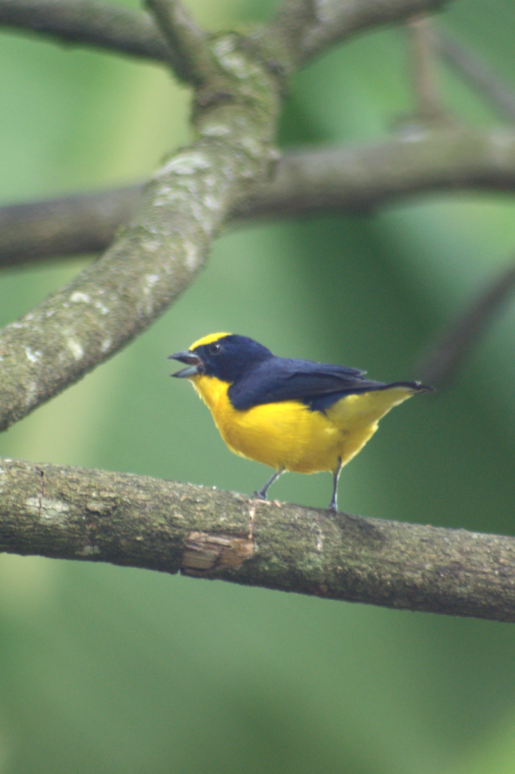 Thick-billed Euphonia in Colombia.